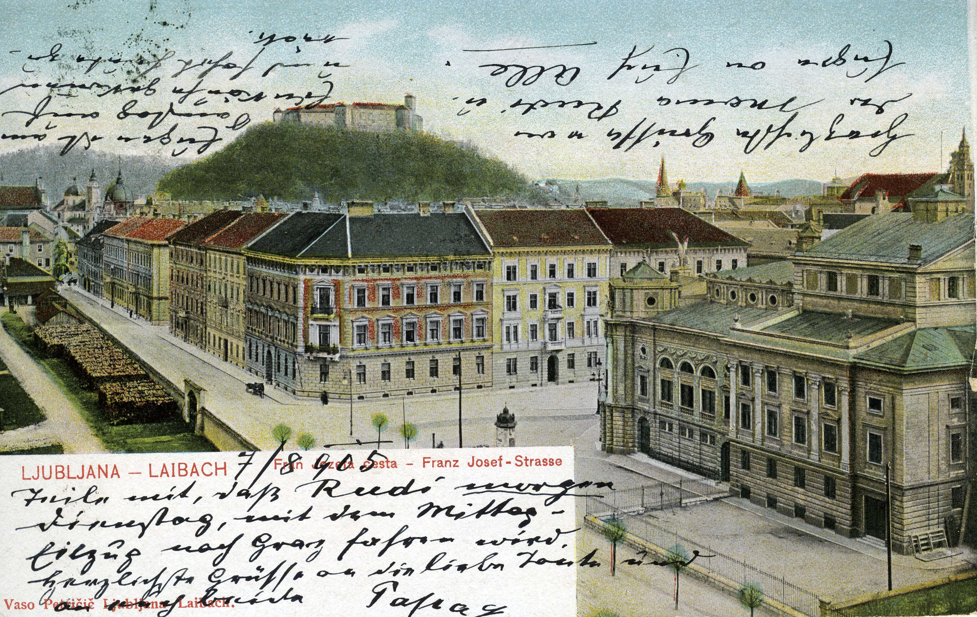 Postcard of Ljubljana.